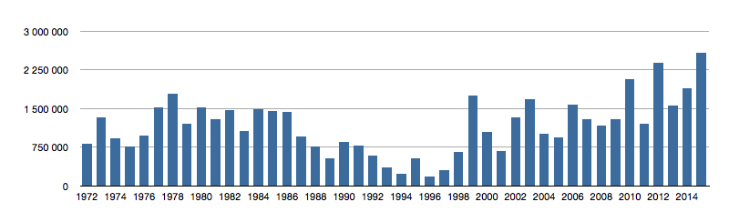 Admission statistics of Finnish films in Finland